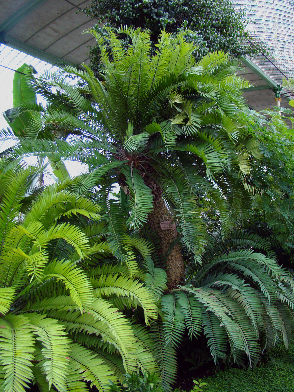 The oldest european cycad in Lednice Greenhouse, Czech Republic.